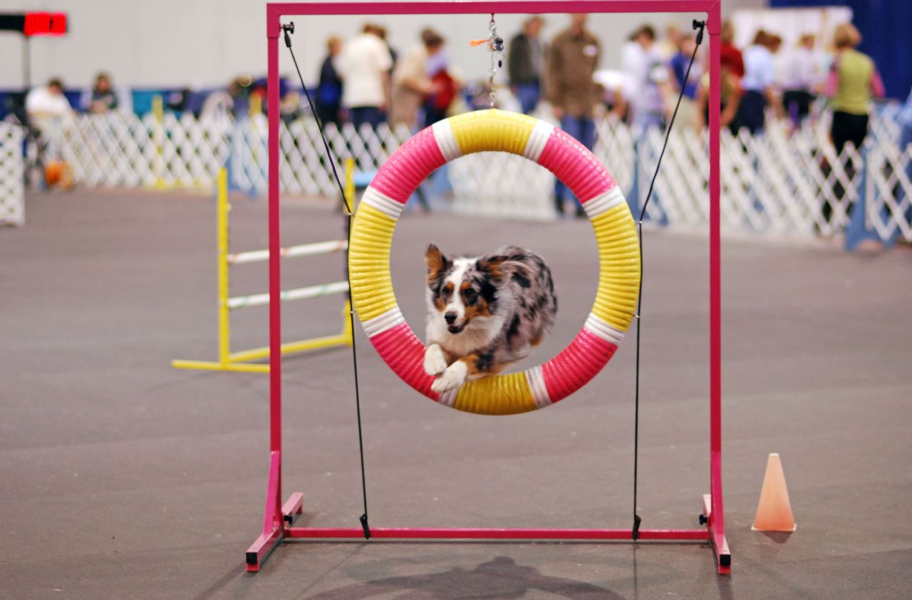 An Australian Shepherd doing agility at the Rose City Classic AKC Show 2007, Portland, Oregon, USA.